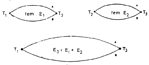 Example of a physical equation created by me, with base in thermodynamic studies.